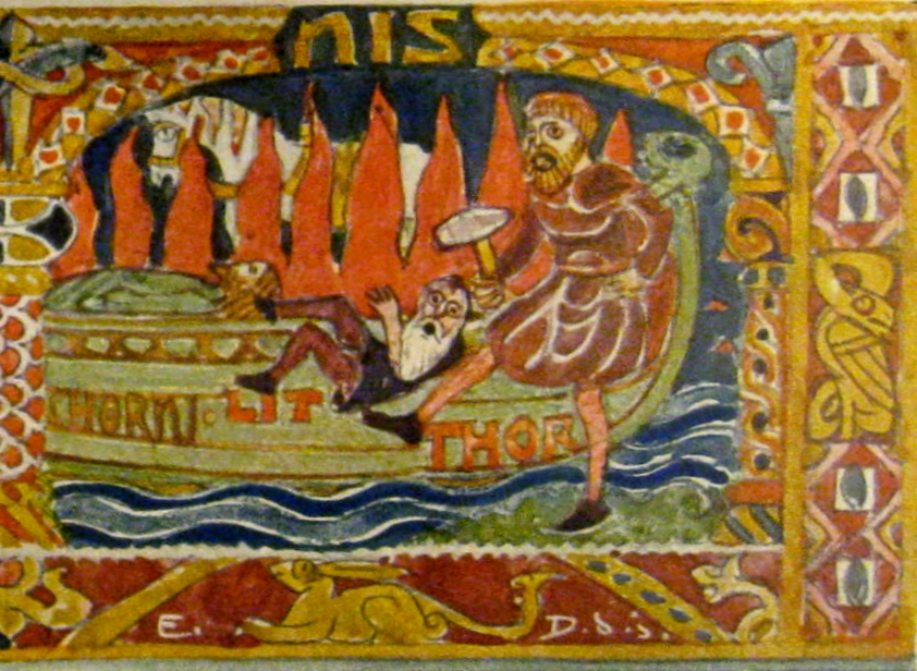 Thor kicks Litr, part of a series on Baldr's funeral.